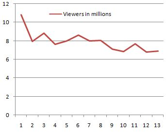 A graph created on Microsoft Excel to show the viewers for the first series (2005) of Doctor Who.